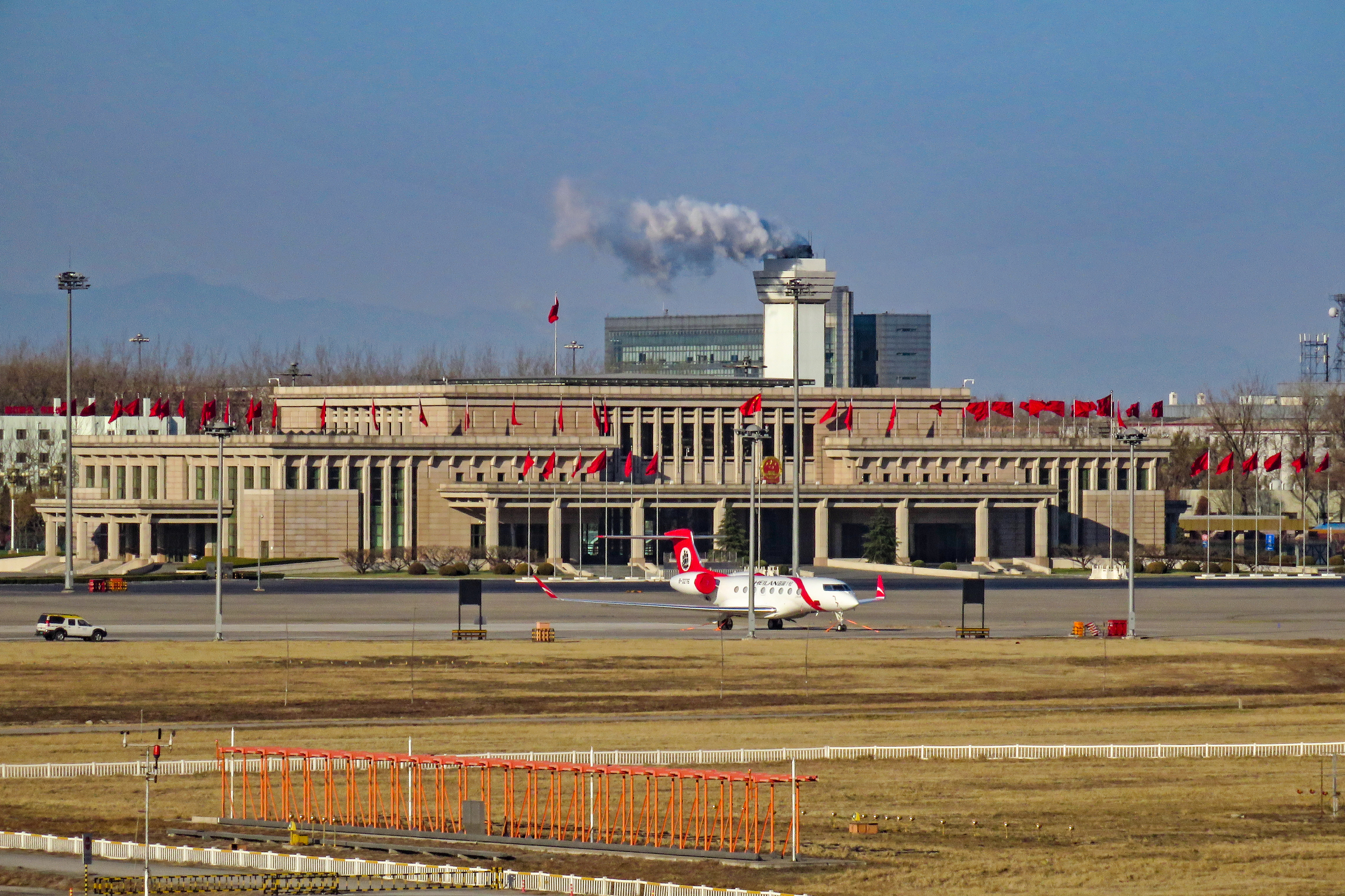 South of this terminal is the business jet tarmac.